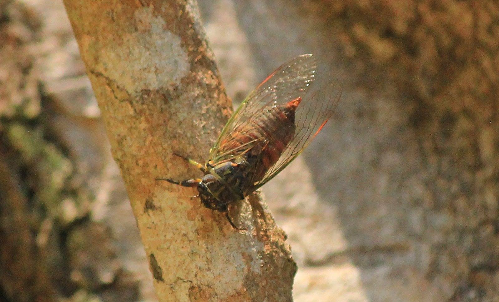 Quintilia rufiventris - Nature's Valley, South Africa